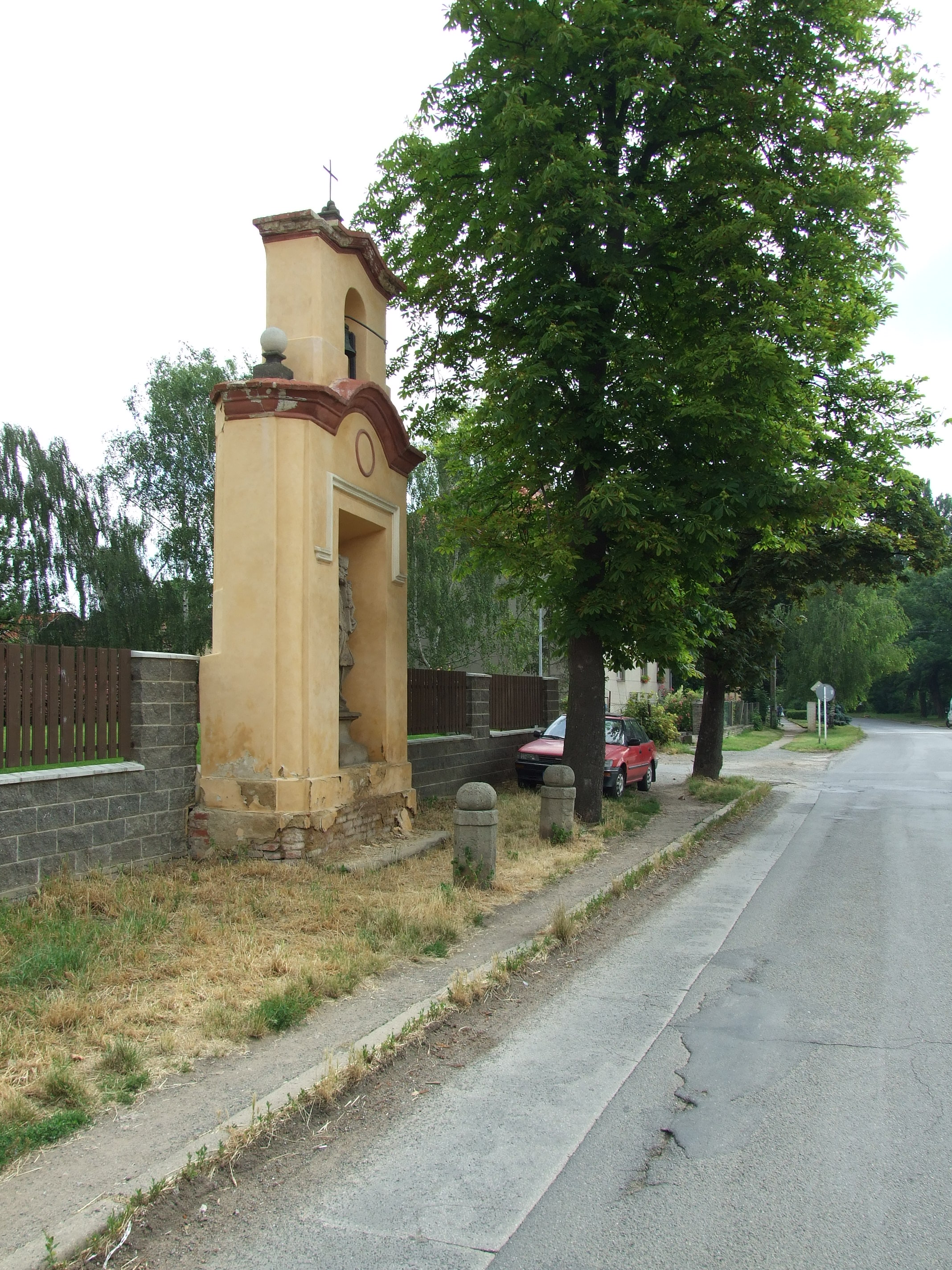 Litovice, part of Hostivice town near Prague, CZhelp